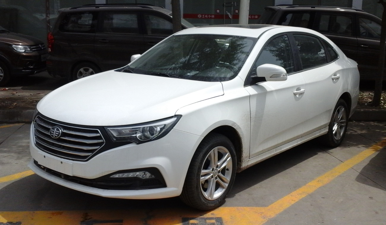 Besturn B30 photographed in Xi'an, Shaanxi province, China.